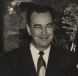 Kentucky Governor Lawrence Wetherby